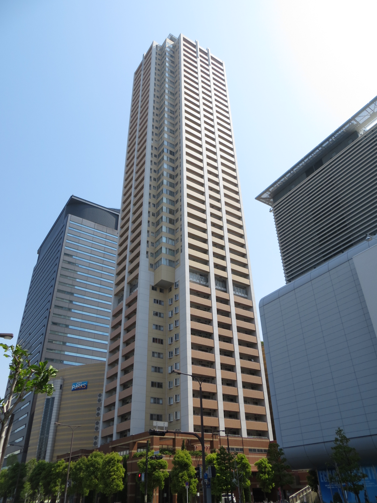 The Namba Tower -Tower Residence in Namba Parks-. Naniwa-ku, Osaka.